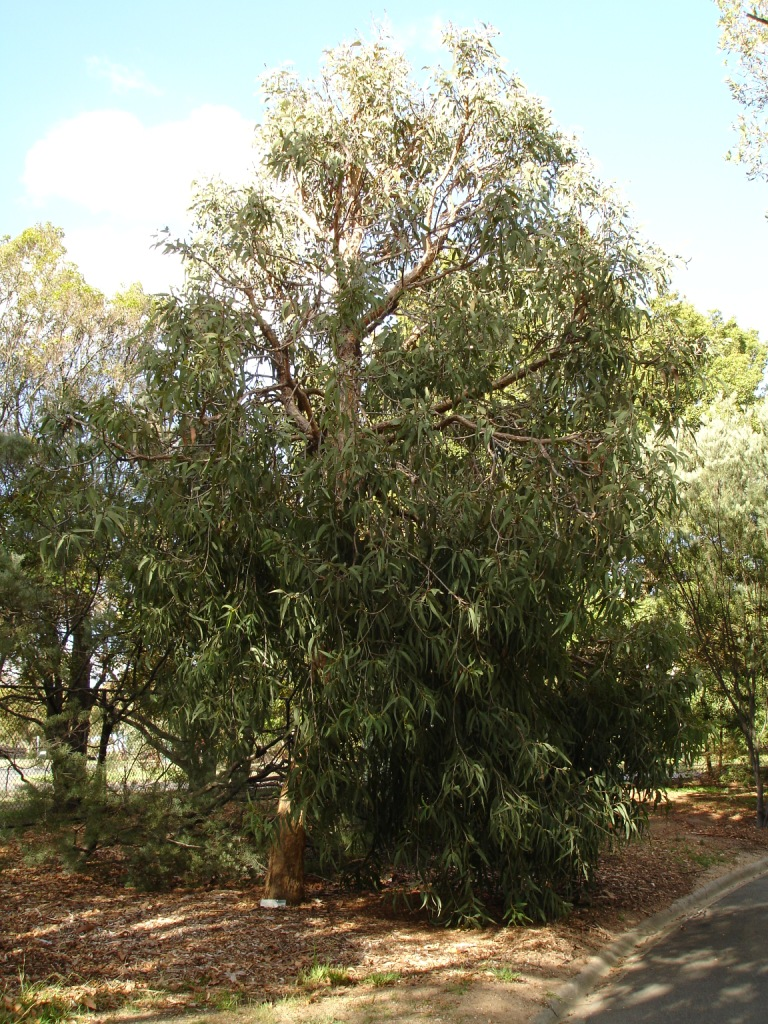 Photographed at Maranoa Gardens, Melbourne, Victoria, Australia by HelloMojo 08:12, 6 April 2007 (UTC)